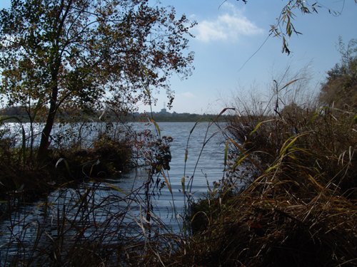 Image of Soil Conservation Services Hickory Creek Basin Retarding Pond #16 (SCS #16), aka "Little Lake," in Denton, Texas